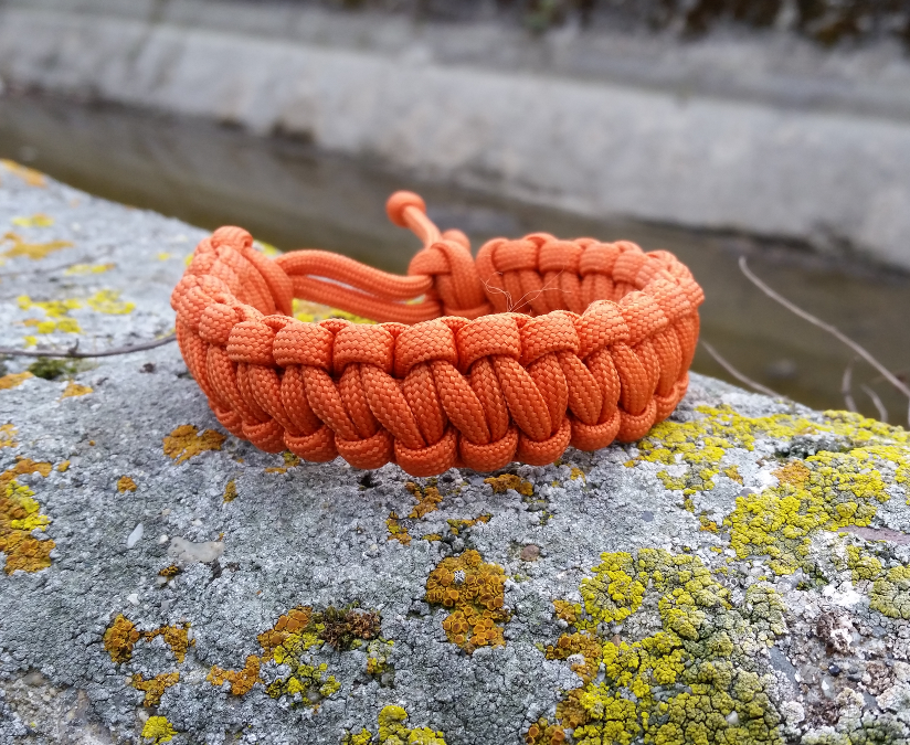 Survival bracelet with tying "Cobra Quick Deploy"